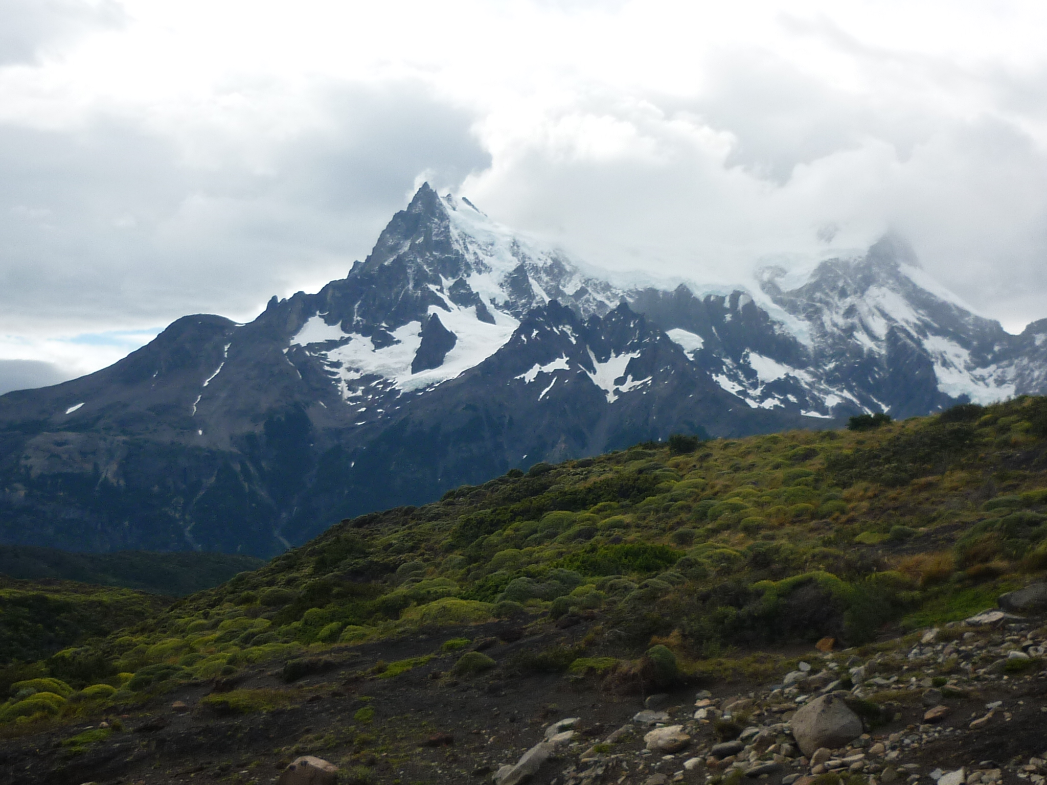 Chilean Patagonia.